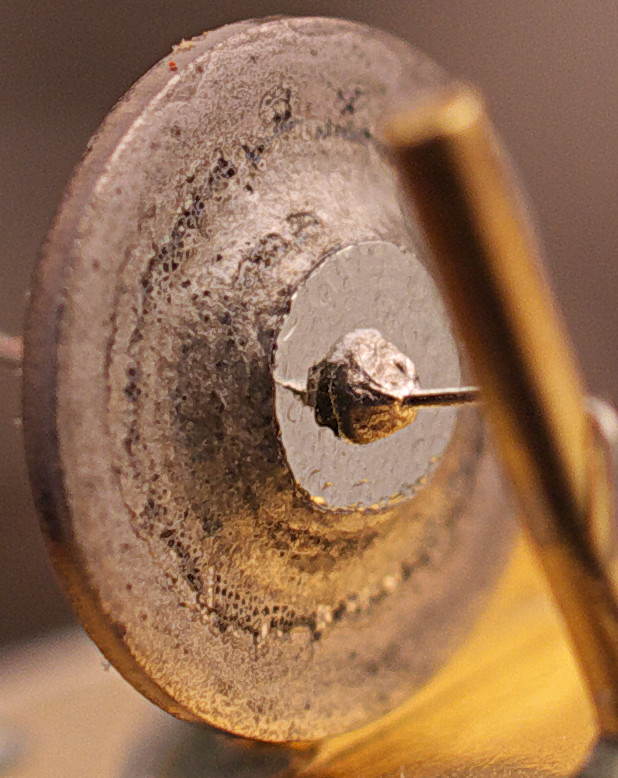 Close up to Collector of . See also